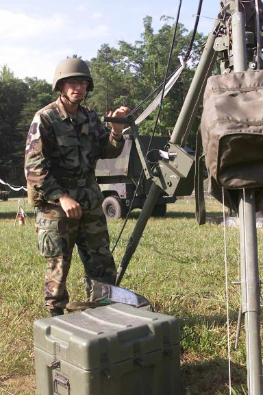 Photo courtesy of the 214th MPAD Pfc. Raul Lugo of the 35th Signal Battalion in Juana Diaz, Puerto Rico, sets up a communications (UHF) antenna. Copyright info: Picture from US Army Corps of Engineers web pages.